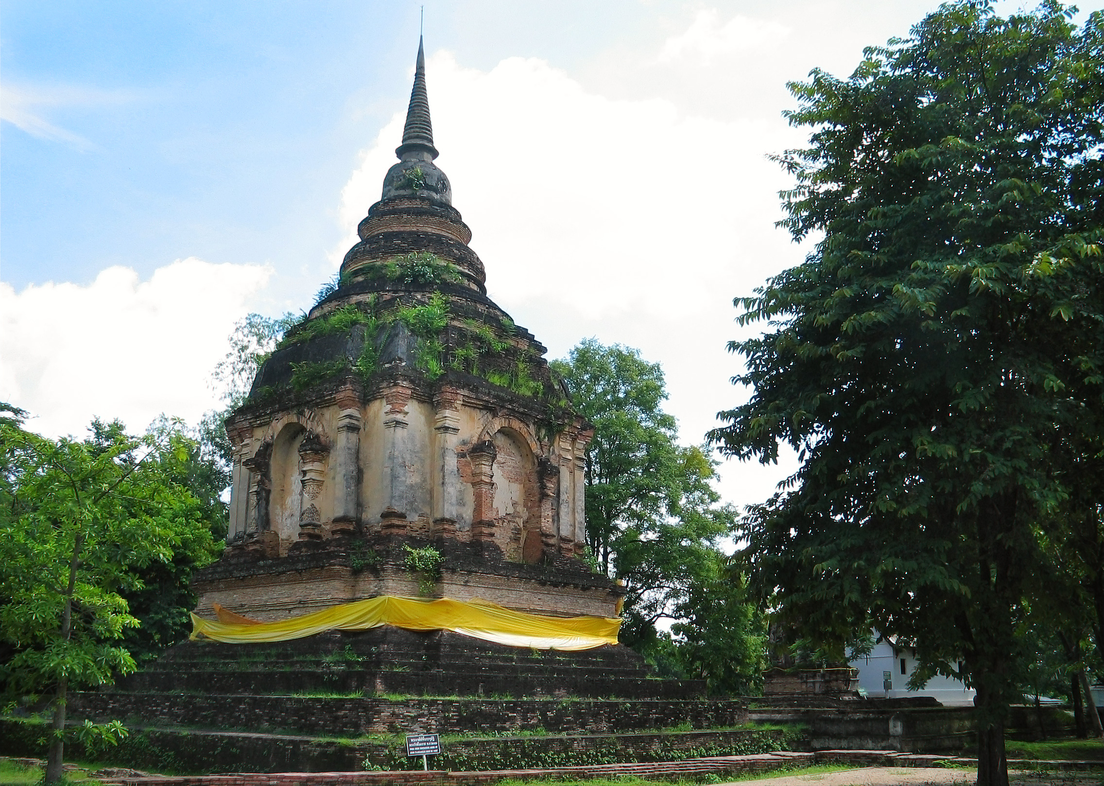 Wat Chet Yot, buddhist temple in Chiang Mai, northern Thailand